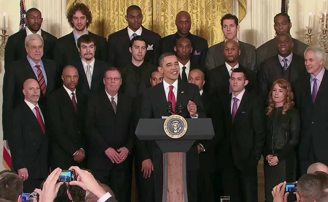 The President welcomes the Los Angeles Lakers to the White House to honor them for winning the 2009 NBA Championship.